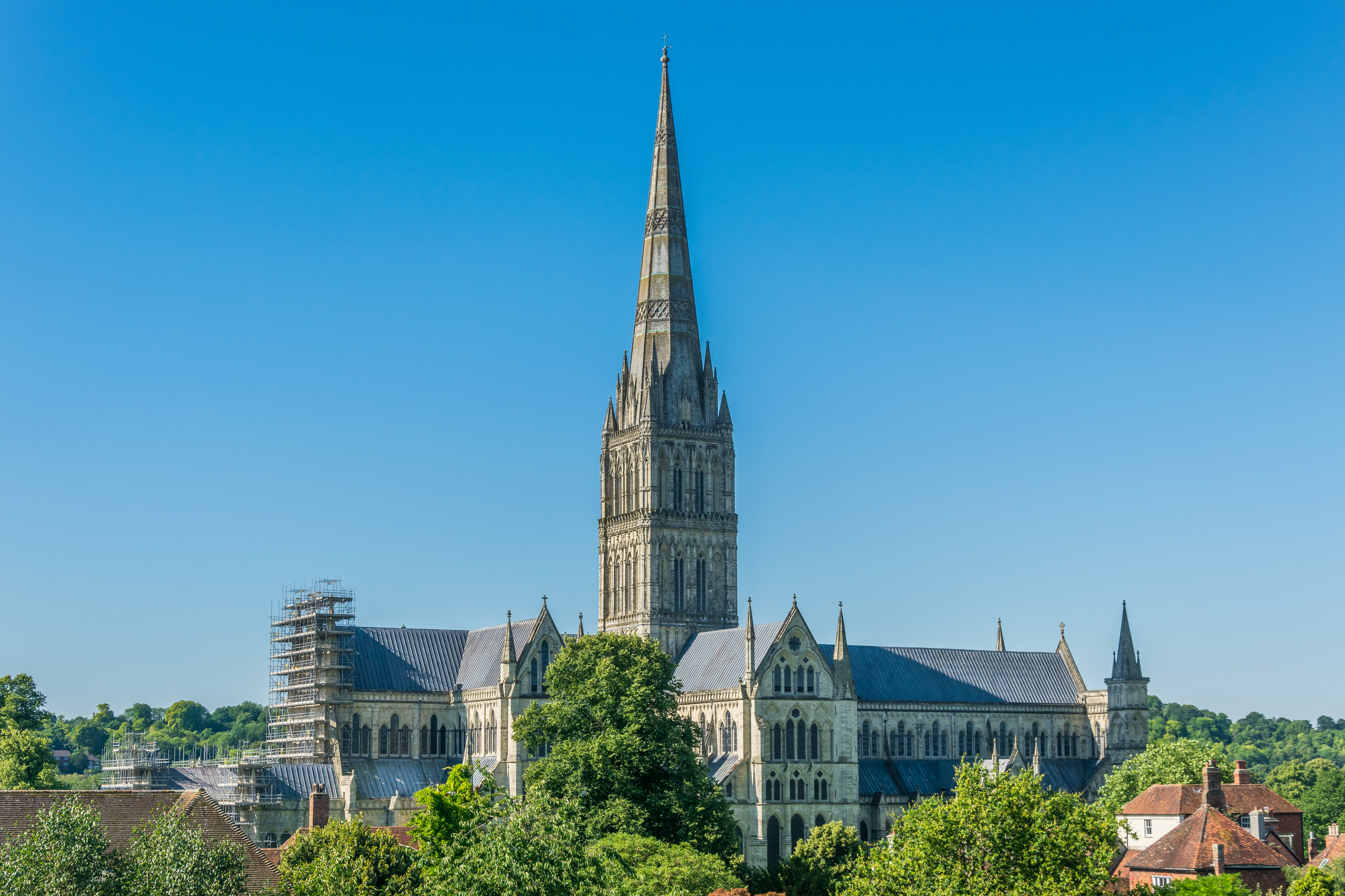 This beautiful Cathedral dominates the city around it.Taken from the Old George Mall car park.